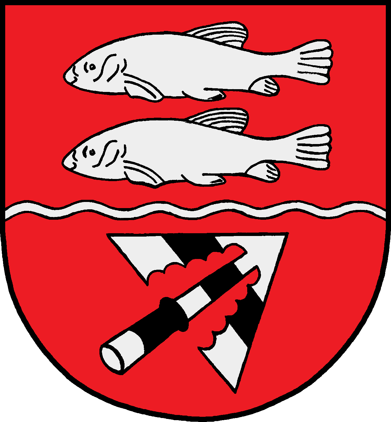 Coat of arms of the municipality Linau in Schleswig-Holstein, Germany.